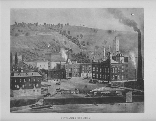 Drawing of Reymann Brewing Company